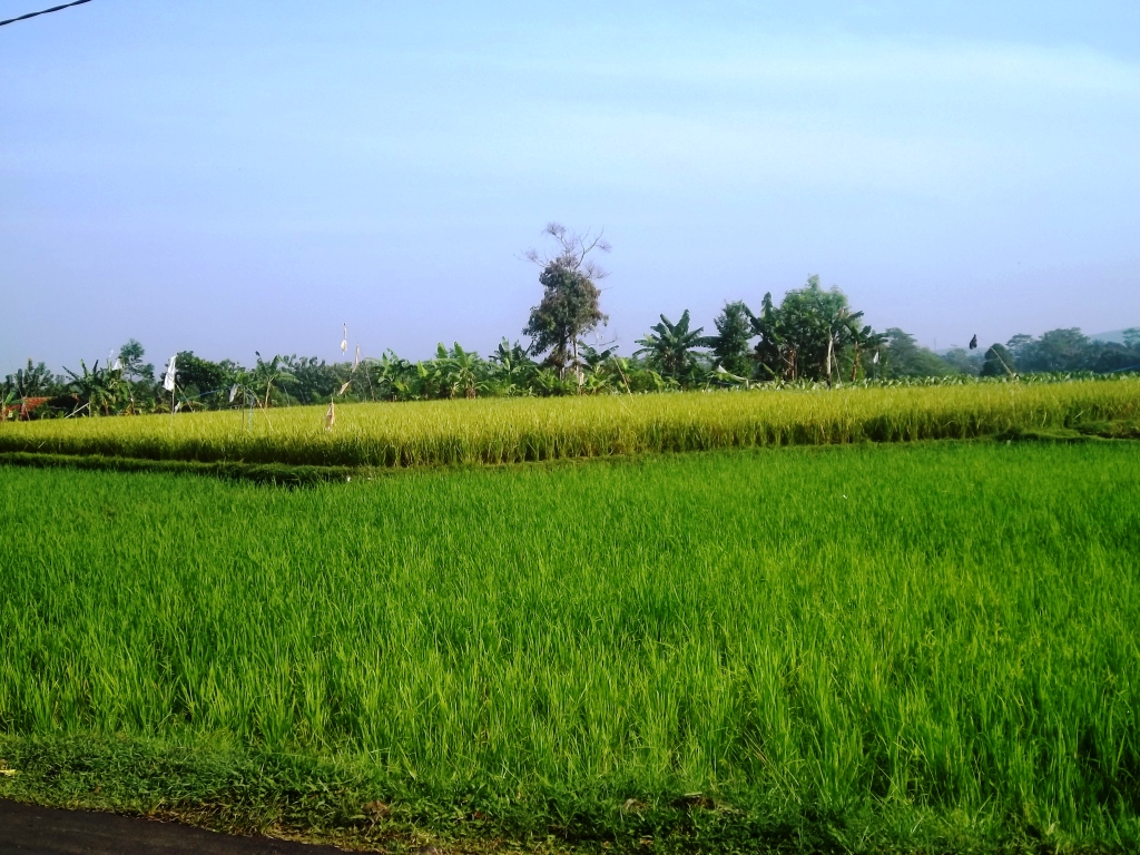 Young and mature paddy in irrigated paddy fields, in Bogor, West Java